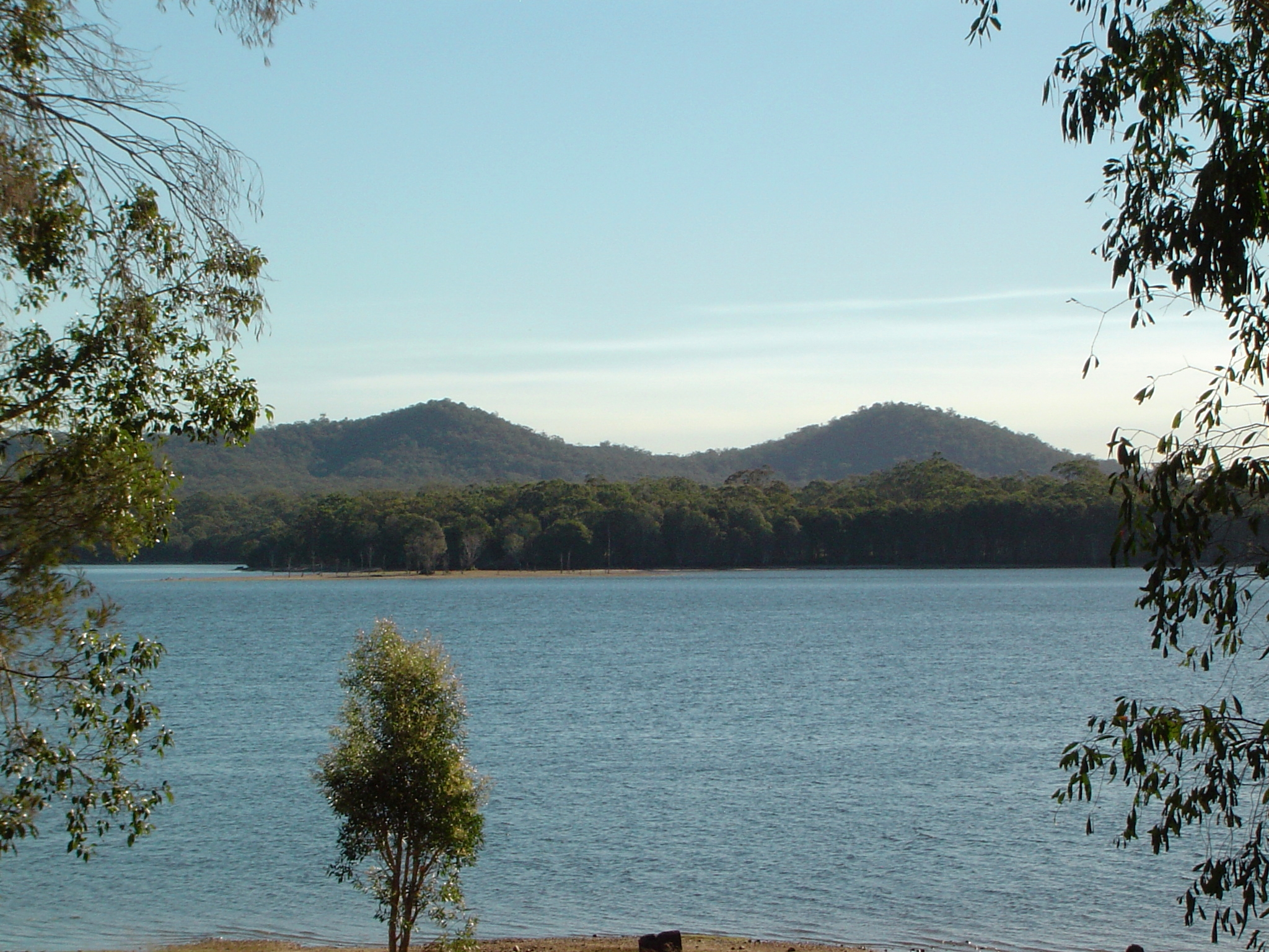 Photo of Leslie Harrison Dam and Mount Petrie from Allambee Crescent in Capalaba, Redland City, Queensland, Australia.